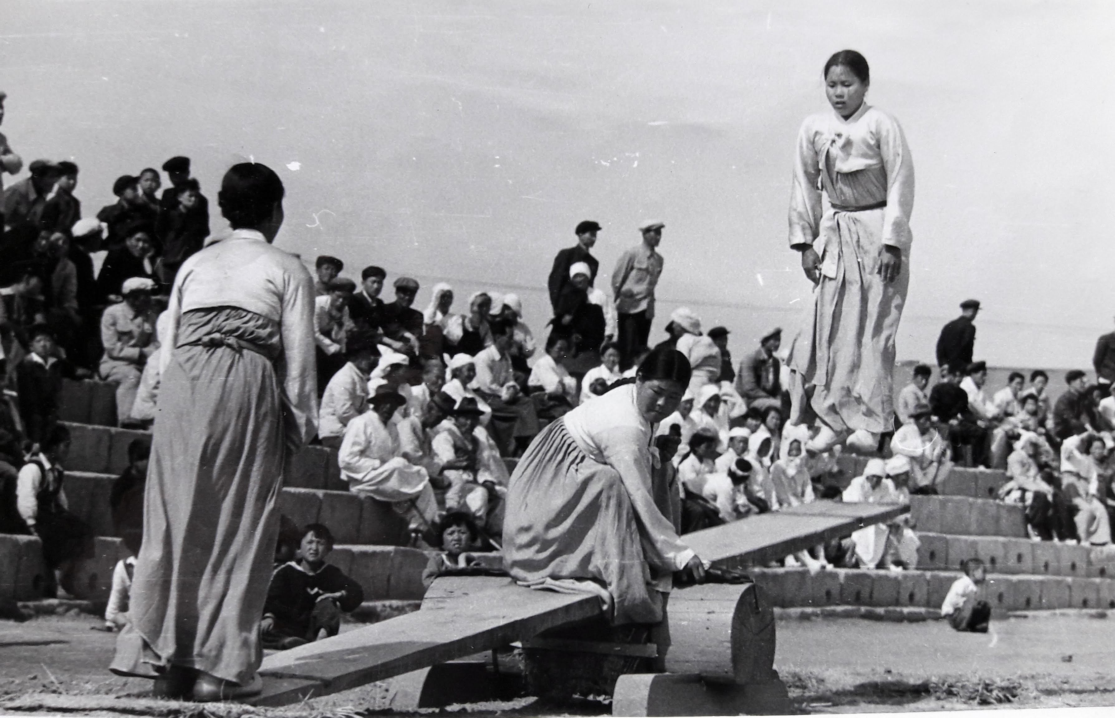 Young women in national dress practice the typical Korean sport: seesawing.